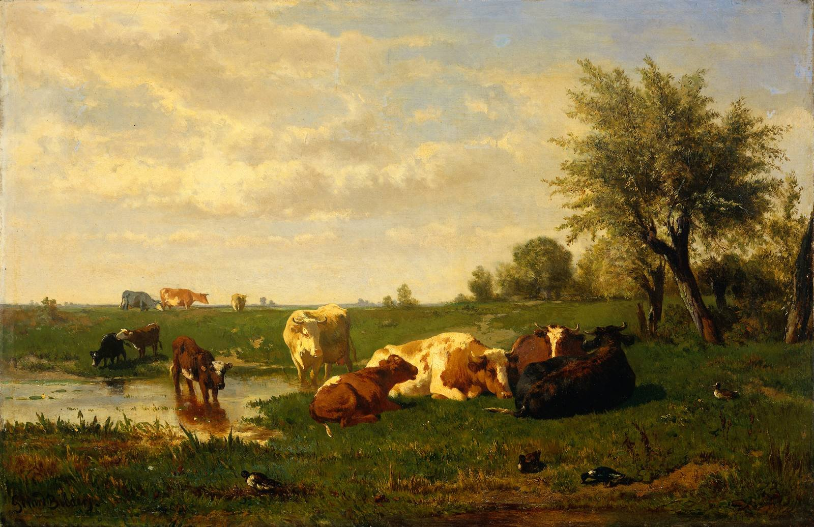 Cows in the meadow. oil on canvas. 47 cm x 70 cm